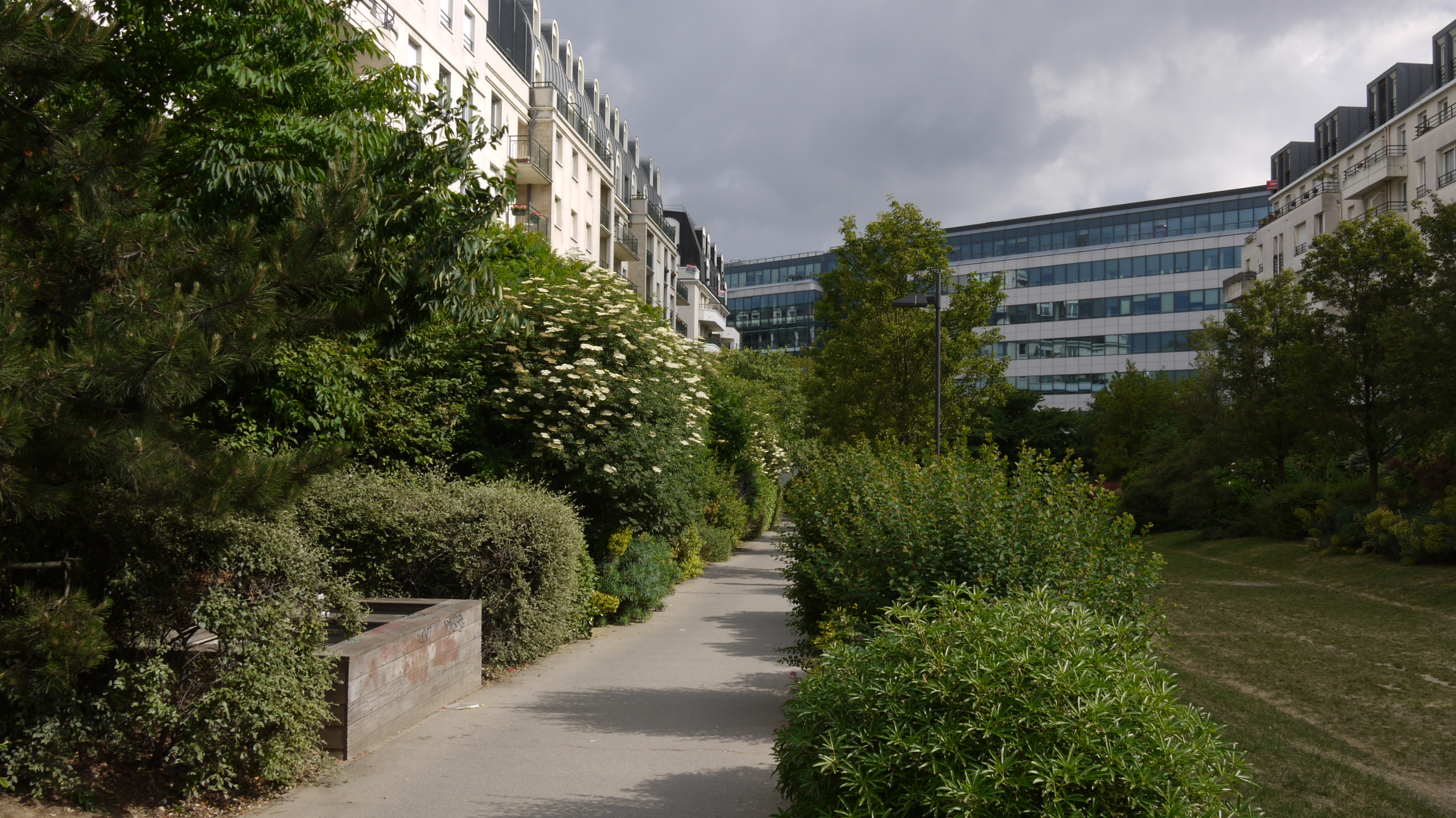 The Coulée verte, a bikeway in the southern suburbs of Paris, at Chatillon (France)